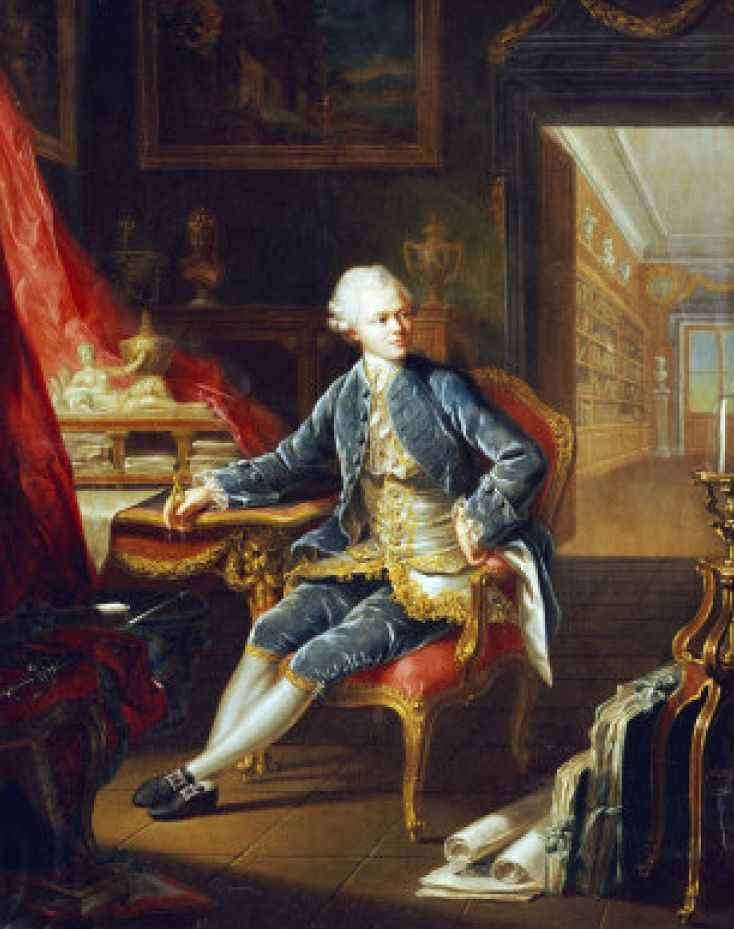 Portrait of Étienne François, duc de Choiseul (1719-1785)